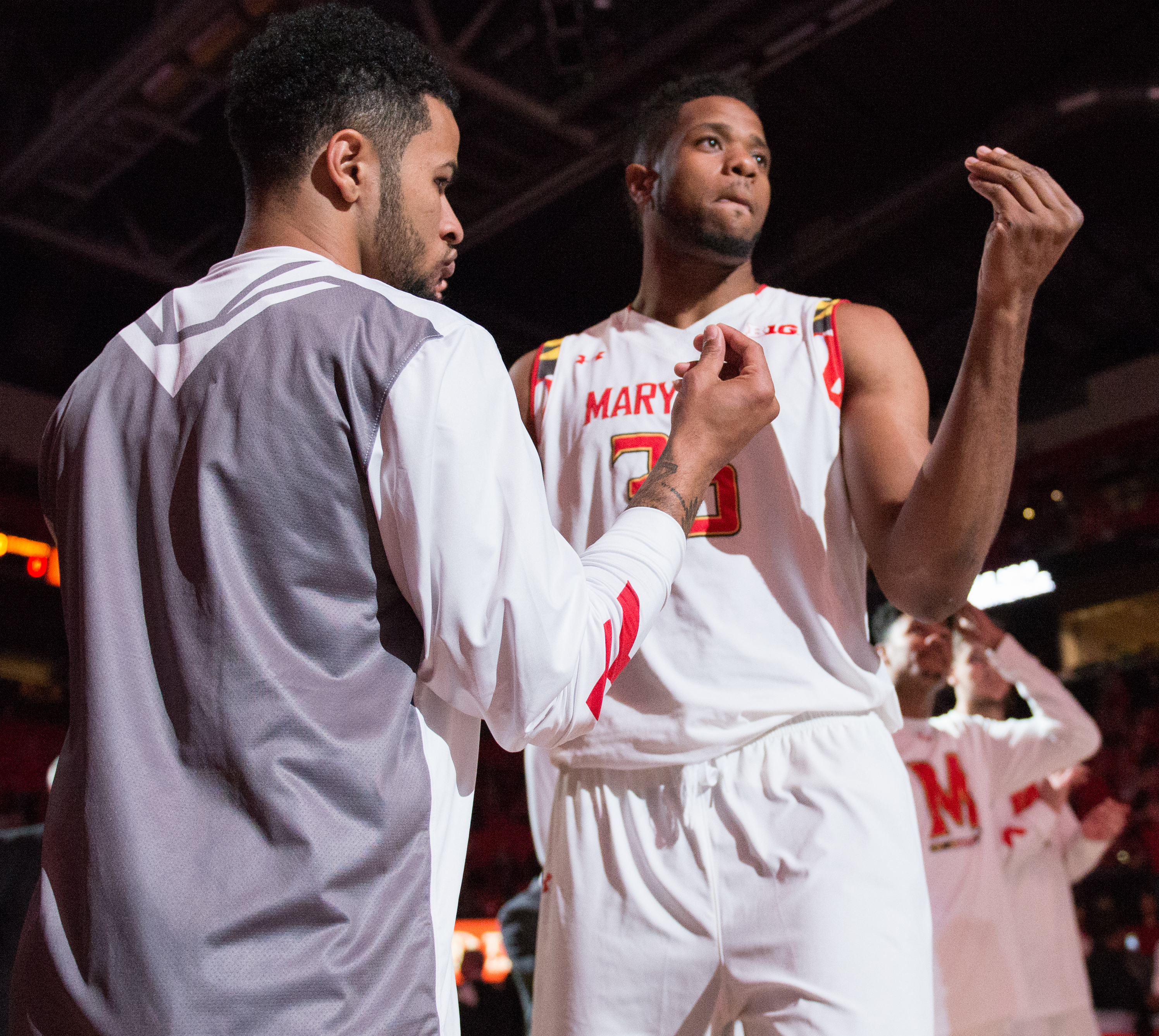 Center Damonte Dodd shows the money during Maryland's 96-55 win over St. Francis at Xfinity Center on Dec. 4, 2015.